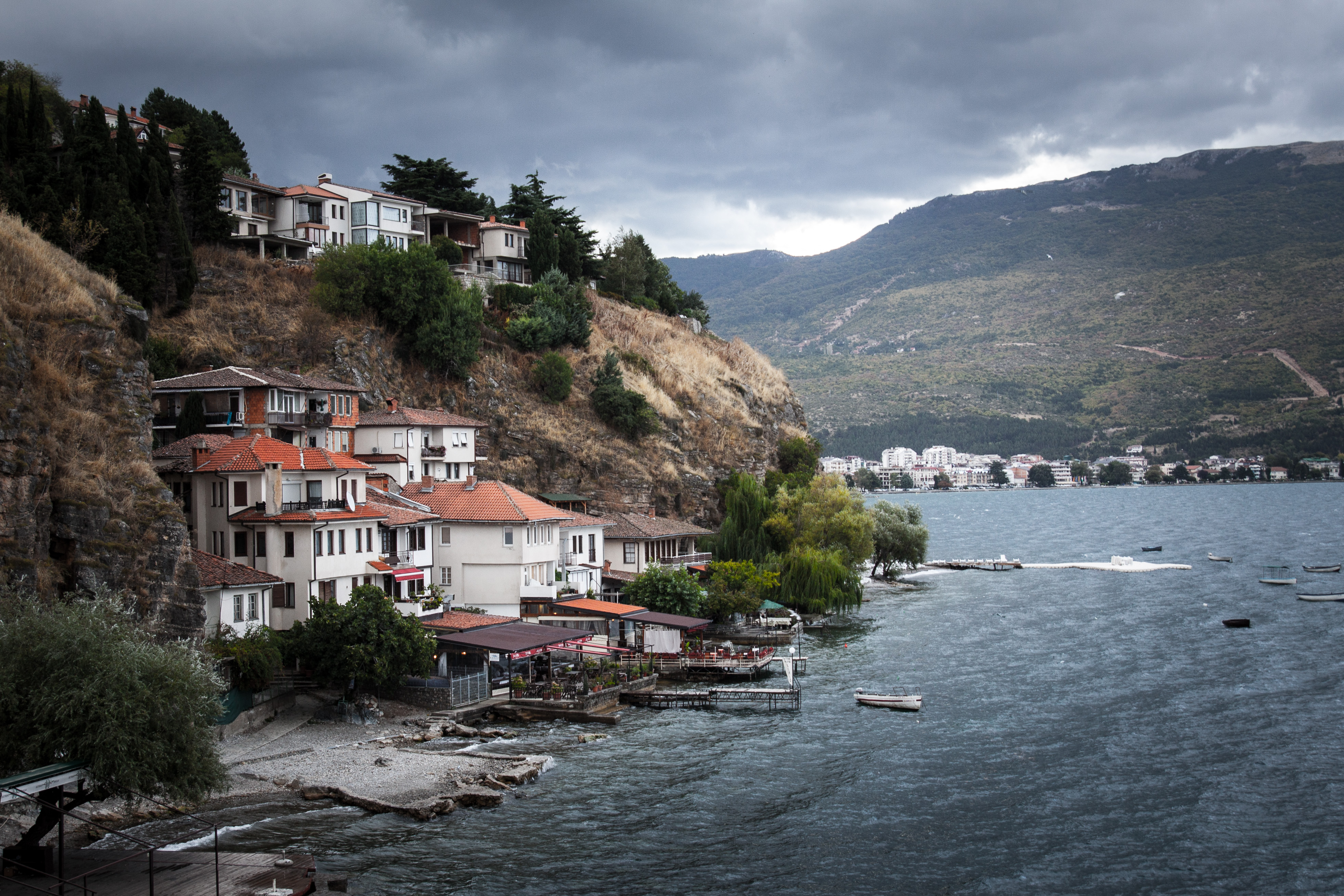 Kaneo settlement in Ohrid